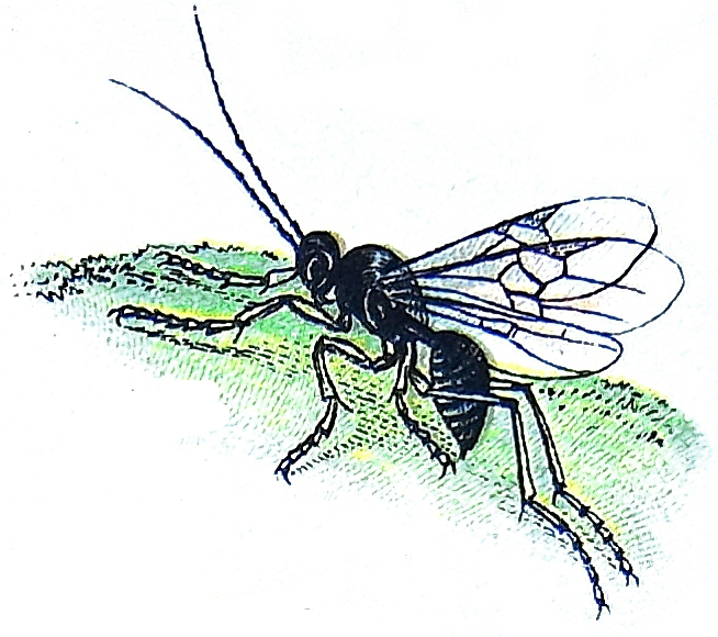 A drawing of Cotesia glomerata, a small parasitic wasp species.